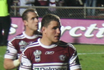 Piemontèis: pic of manly sea eagles player